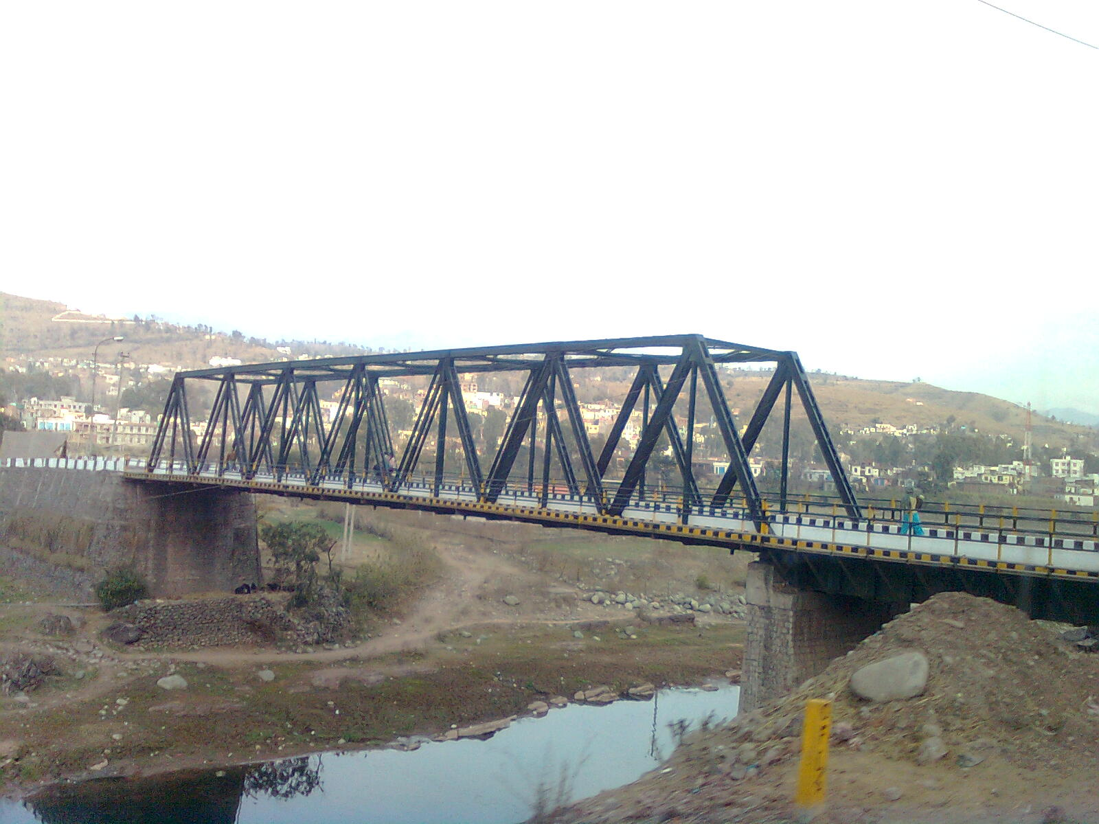 Rajouri Bridge